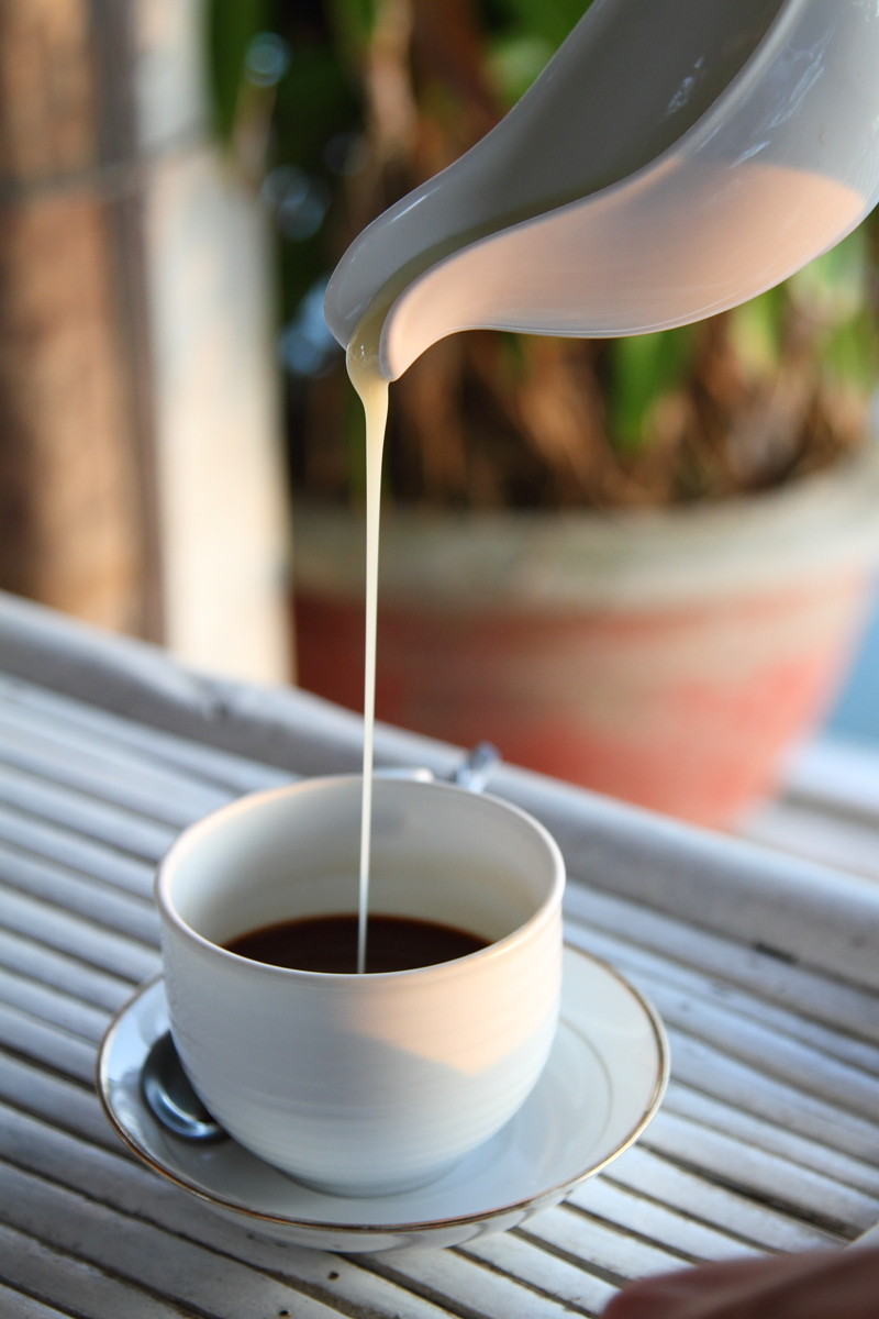 Vietnamese coffee is mixed with a very sweet condensed milk.